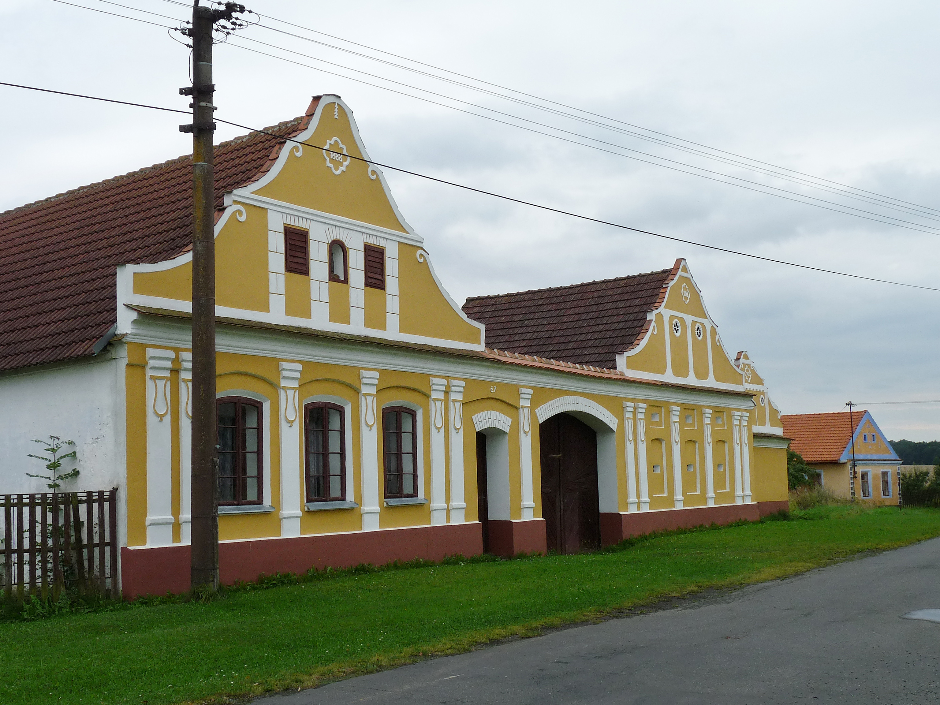 House No 7in Komárov, Tábor district, Czech Republic, dated 1888